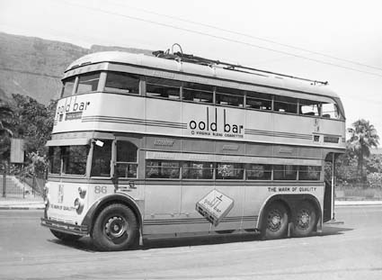 Cape Town trolleybus no 86. This vehicle was part of a series of 71 three axle Sunbeam MS2s with Weymann bodywork - Nos. 51-121 - that joined the Cape Town trolleybus fleet in 1938-1939.More information about Cape Town trolleybuses is available at Springbok Bus Roots: the Trackless Trams.